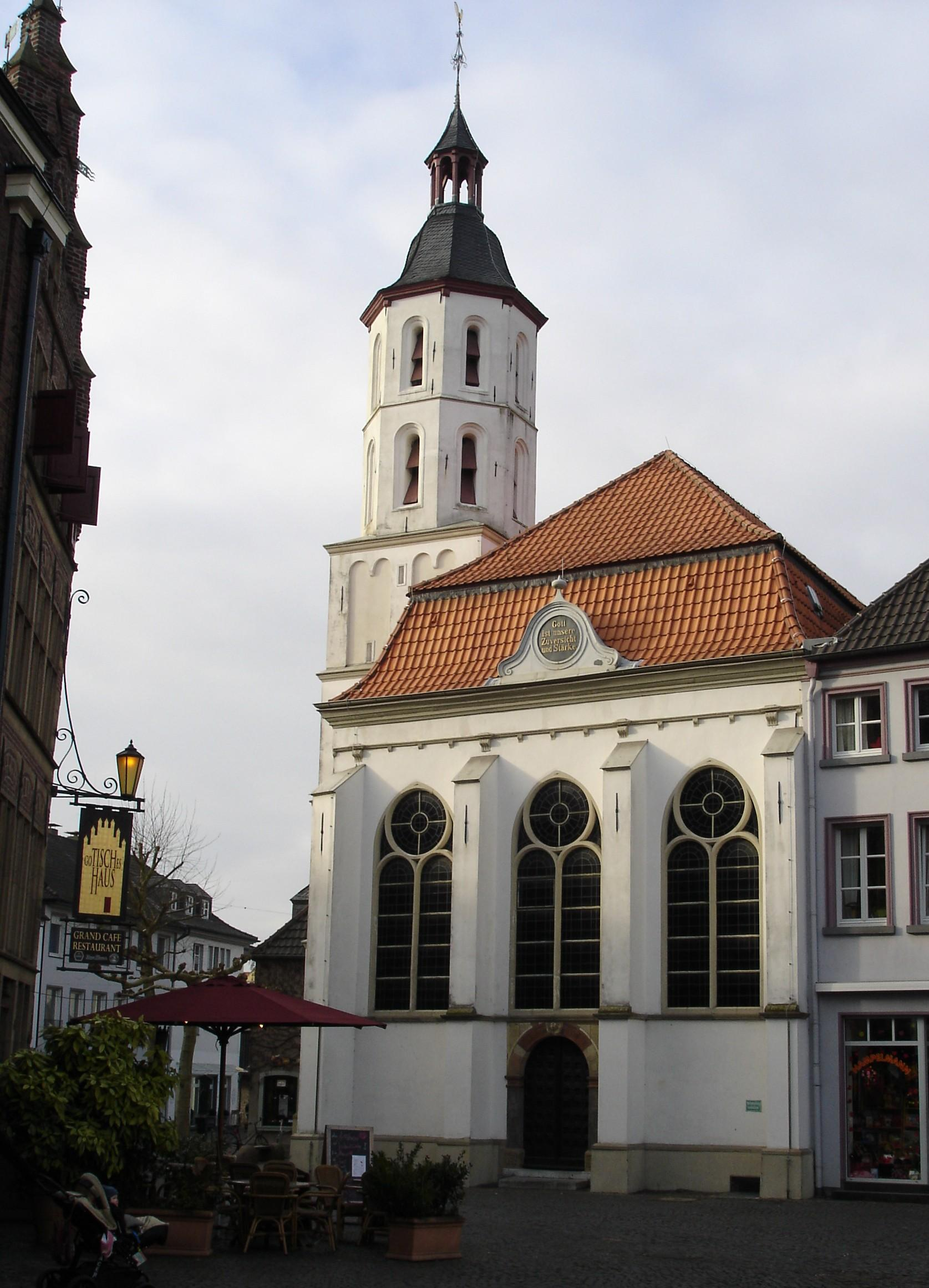 Protestant church in Xanten